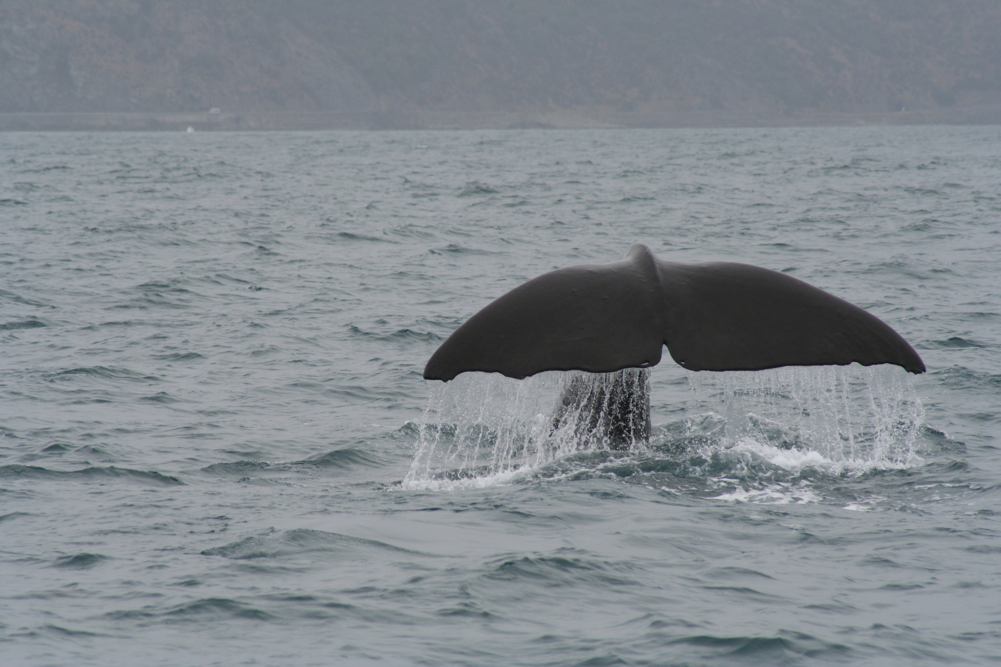 spermwhale tail, pacific ocean, Kaikoura, Southern Island, New Zealand